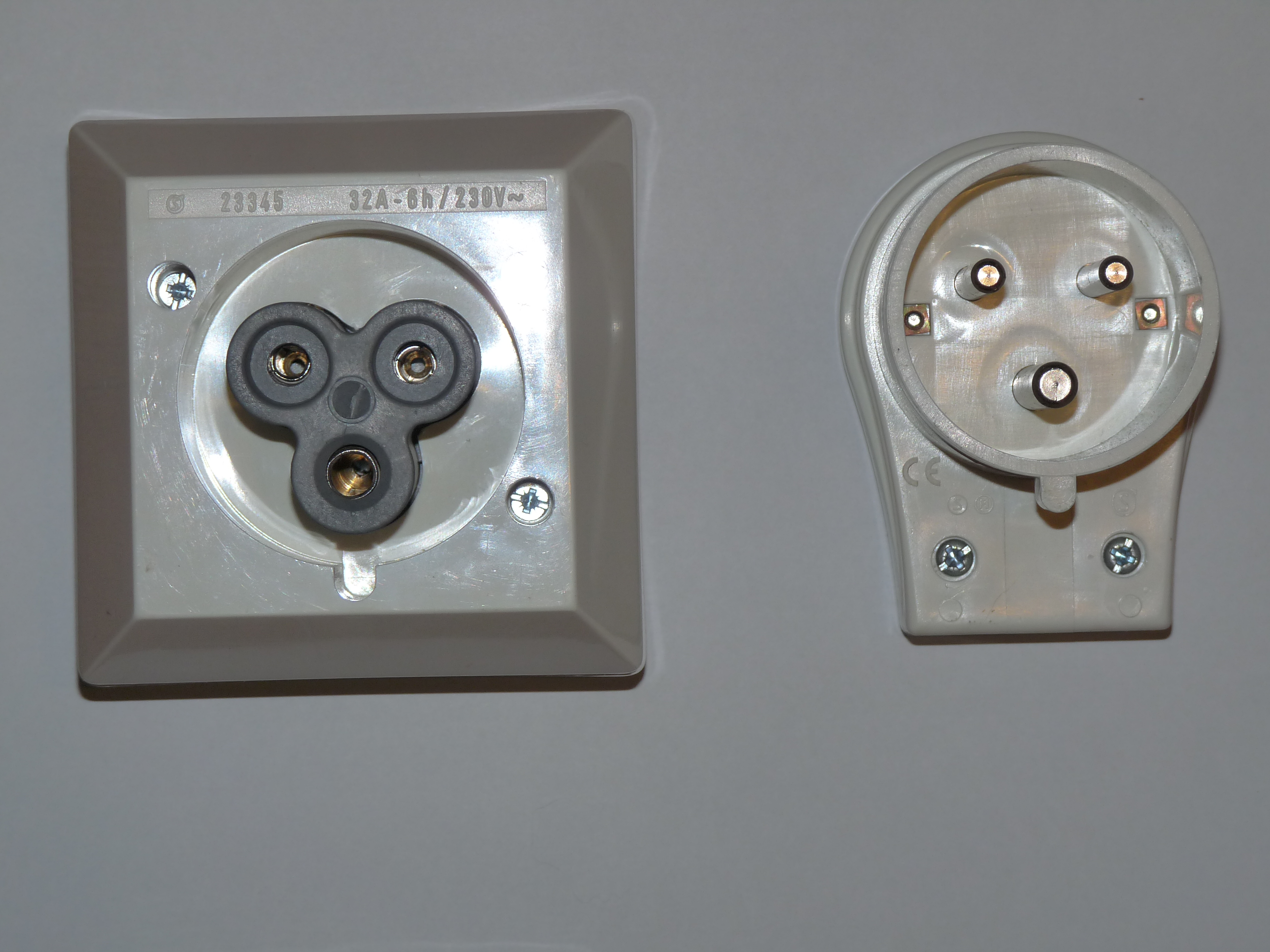 Power plug for stove. Properties: Max current: 32A Max voltage: 230V Terminals: Load: 4mm² Cu Ground: 10mm² Cu Of course you can put 3G10 copper cable, if you want to suffer yourself working with 3 hard fat wires 10mm² :-)